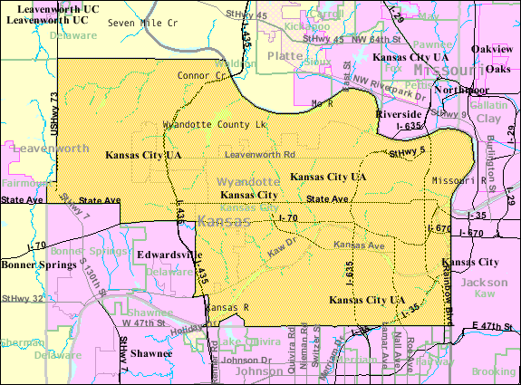 US Census map of Kansas City, Kansas